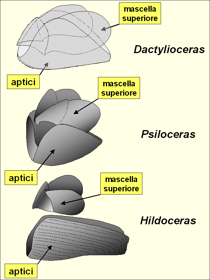 jaws schematic representation of three ammonite genera; after Nixon in Landman et al. (1996), modified (Ammonoid Paleobiology - Plenum Press; New York)